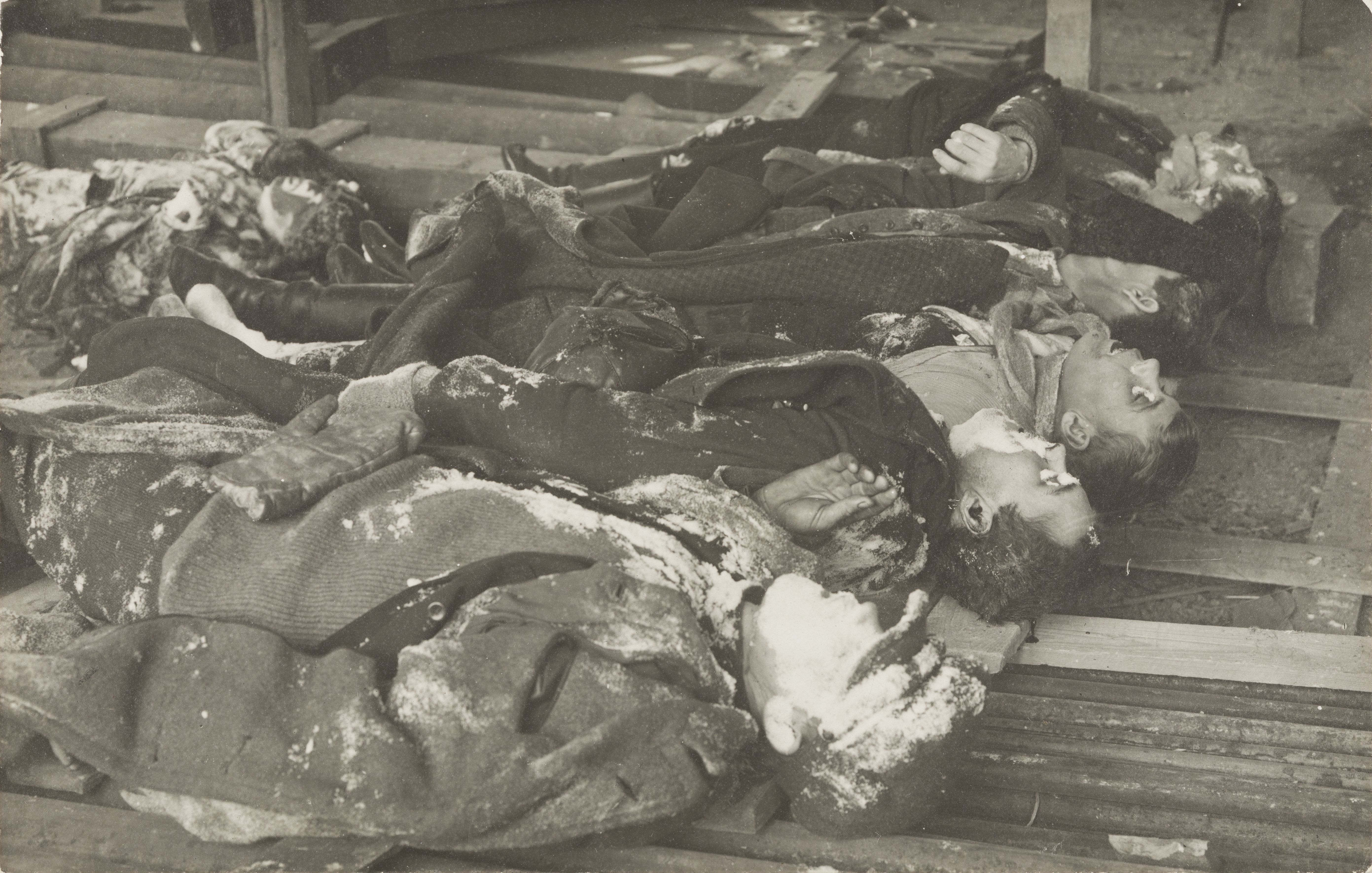 1918 Finnish Civil War Red Guard members executed after the Battle of Varkaus, 21 February 1918.